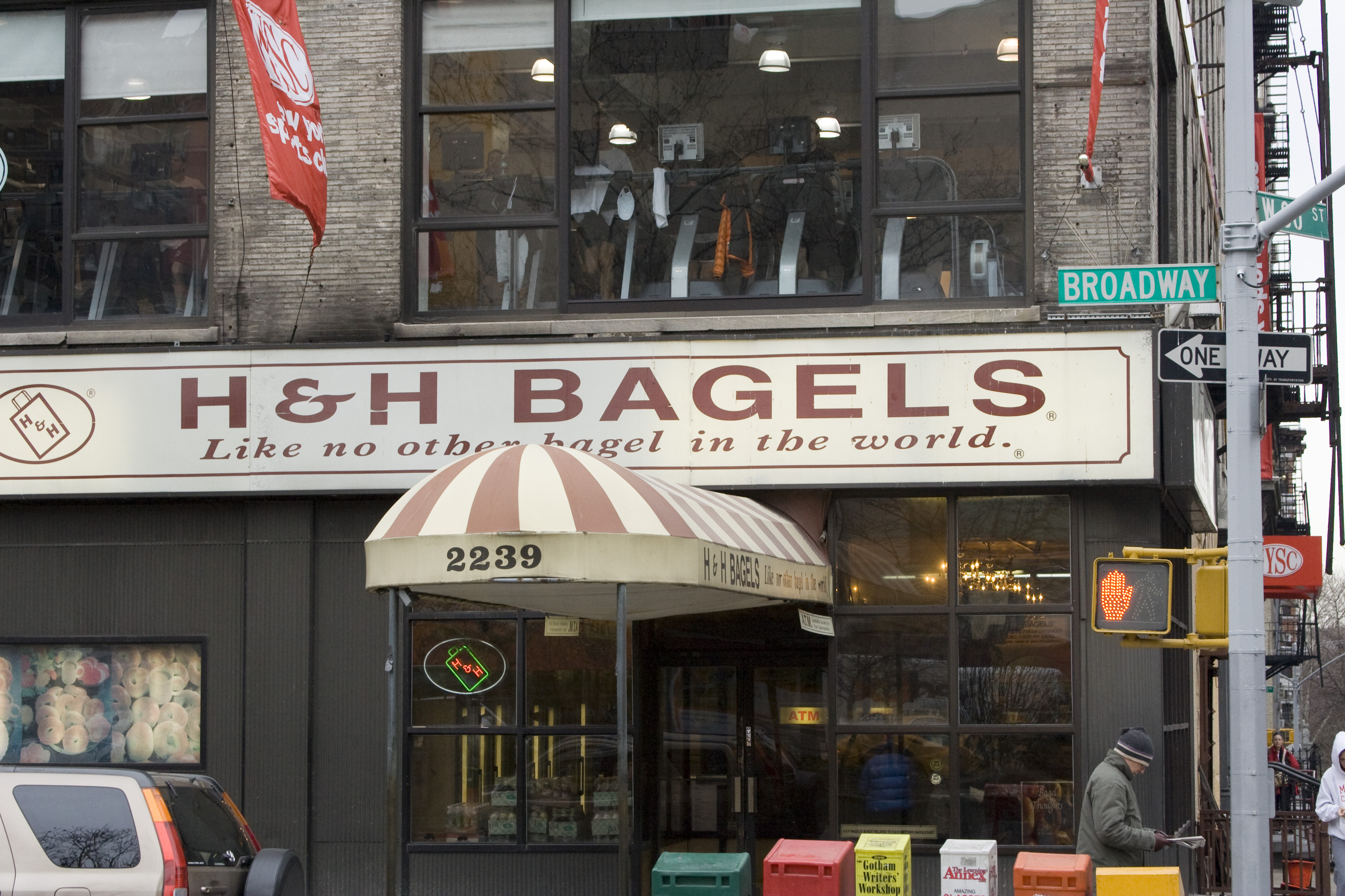 Exterior of H&H Bagel from Broadway